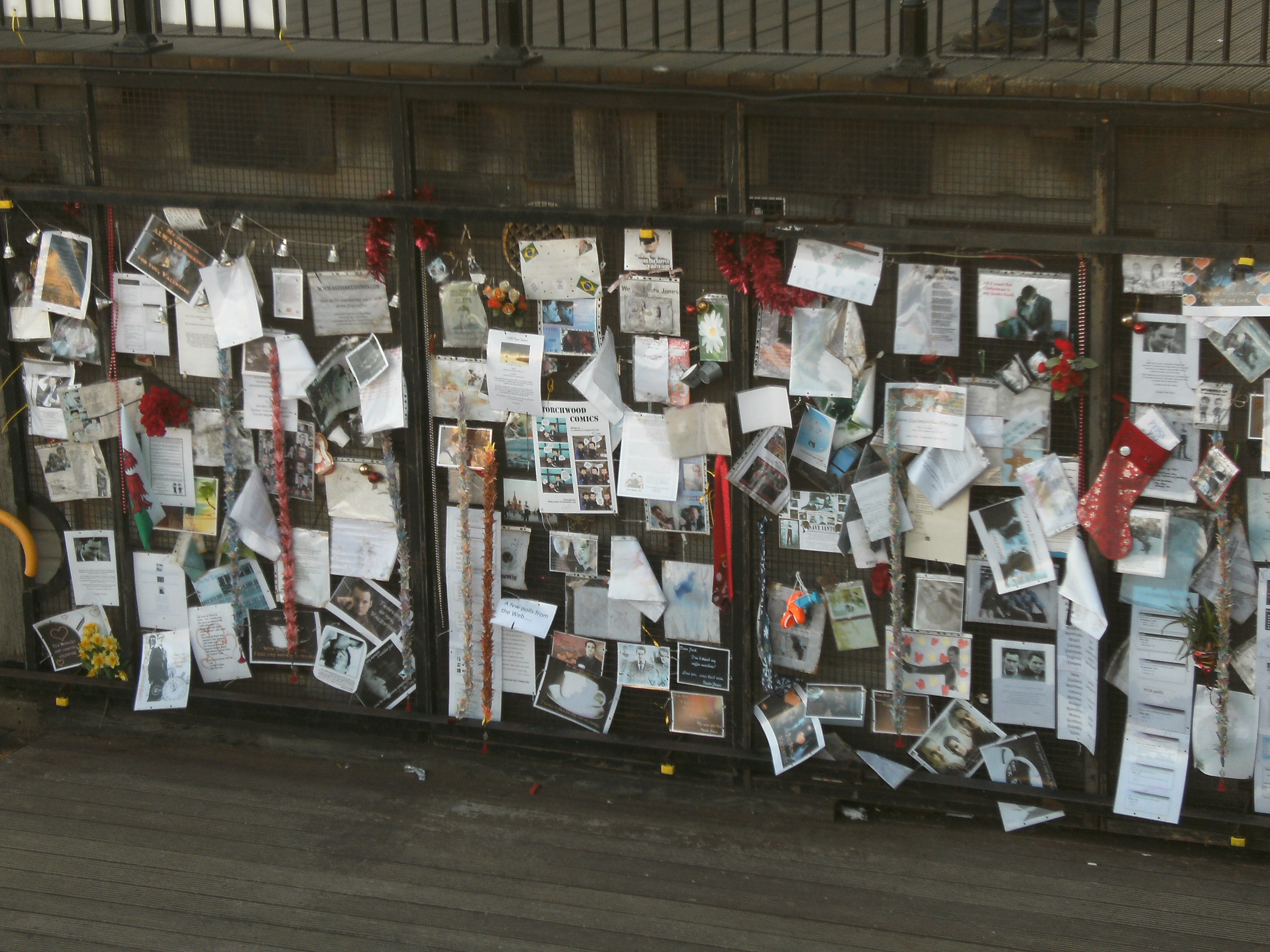 Shrine for Torchwood's Ianto Jones at Cardiff Bay at the entrance of the "Tourist Office". We're still missing him, we still want him back.